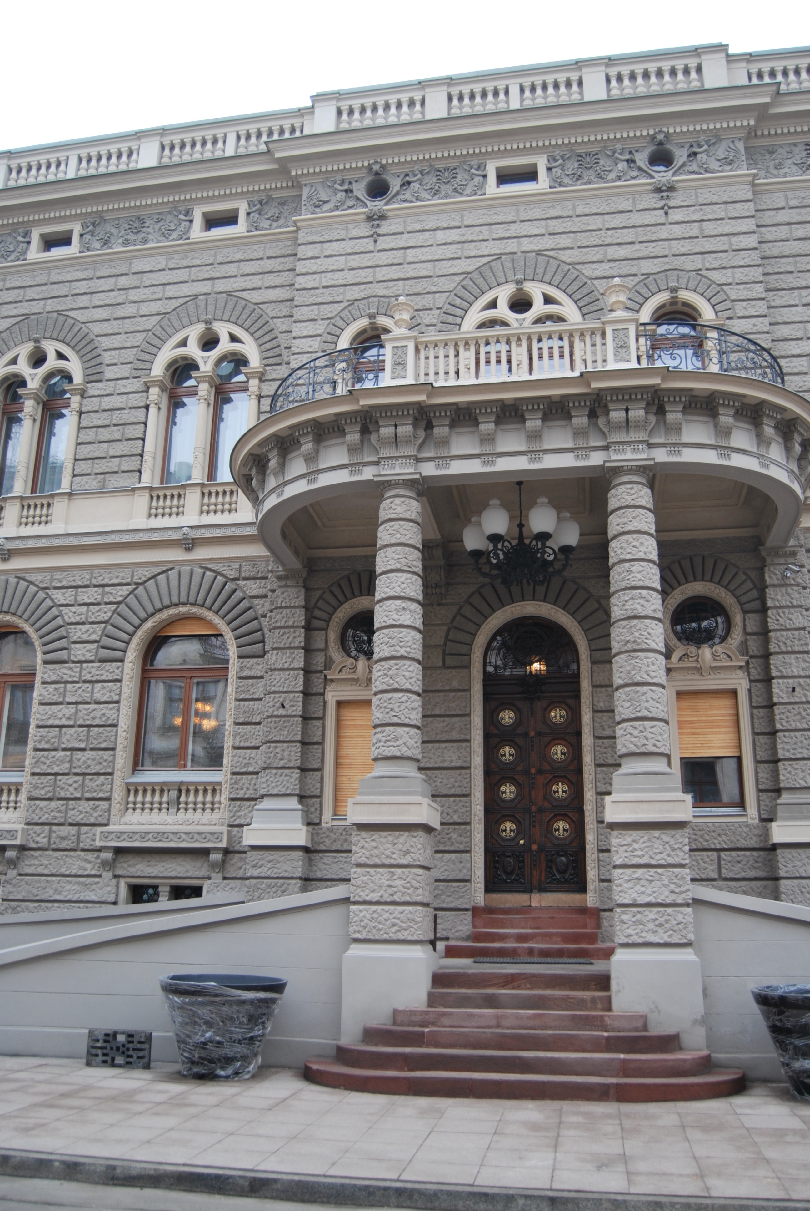 Entrance